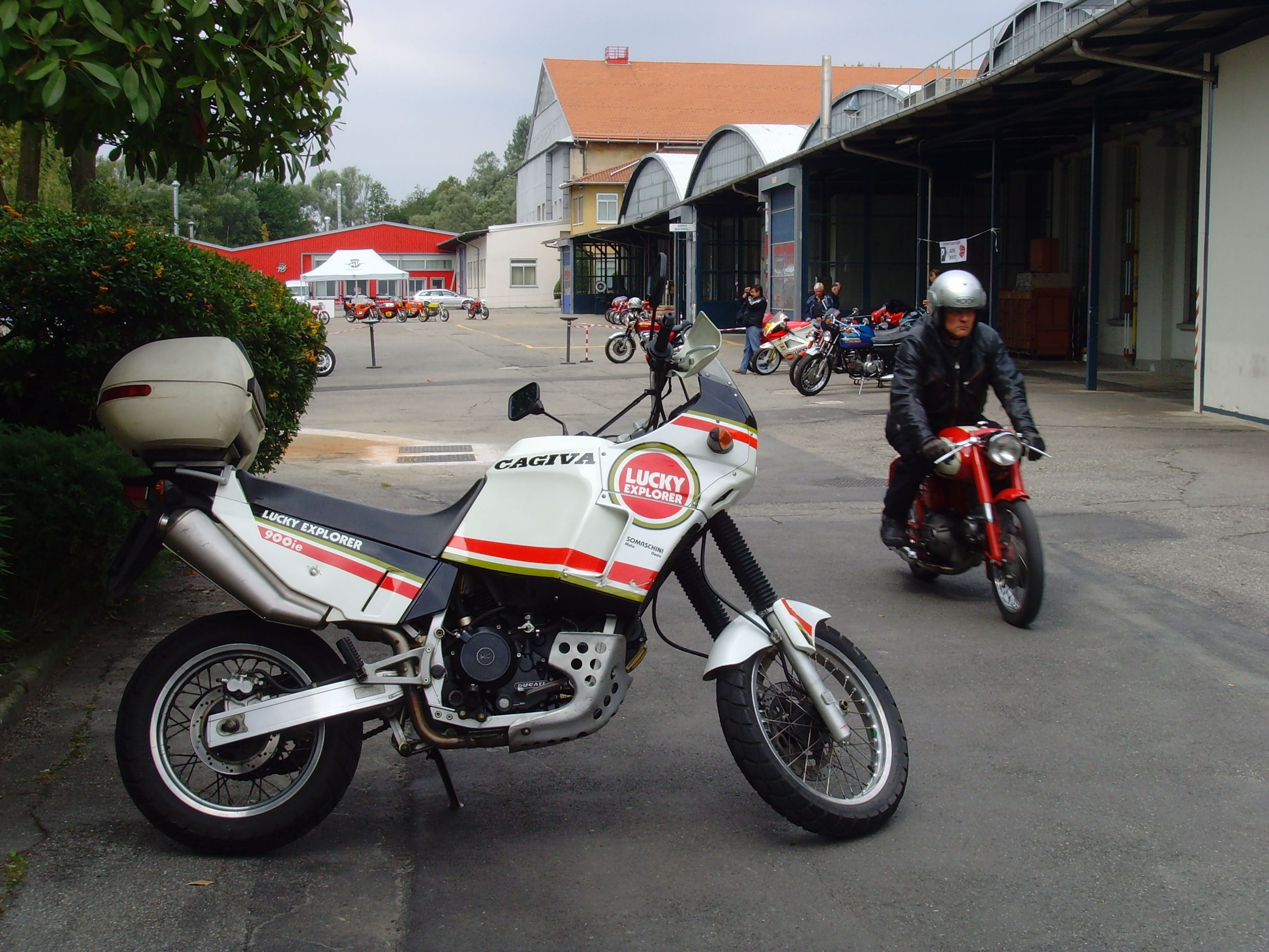 Cagiva Elefant 900ie Lucky Explorer, 1992